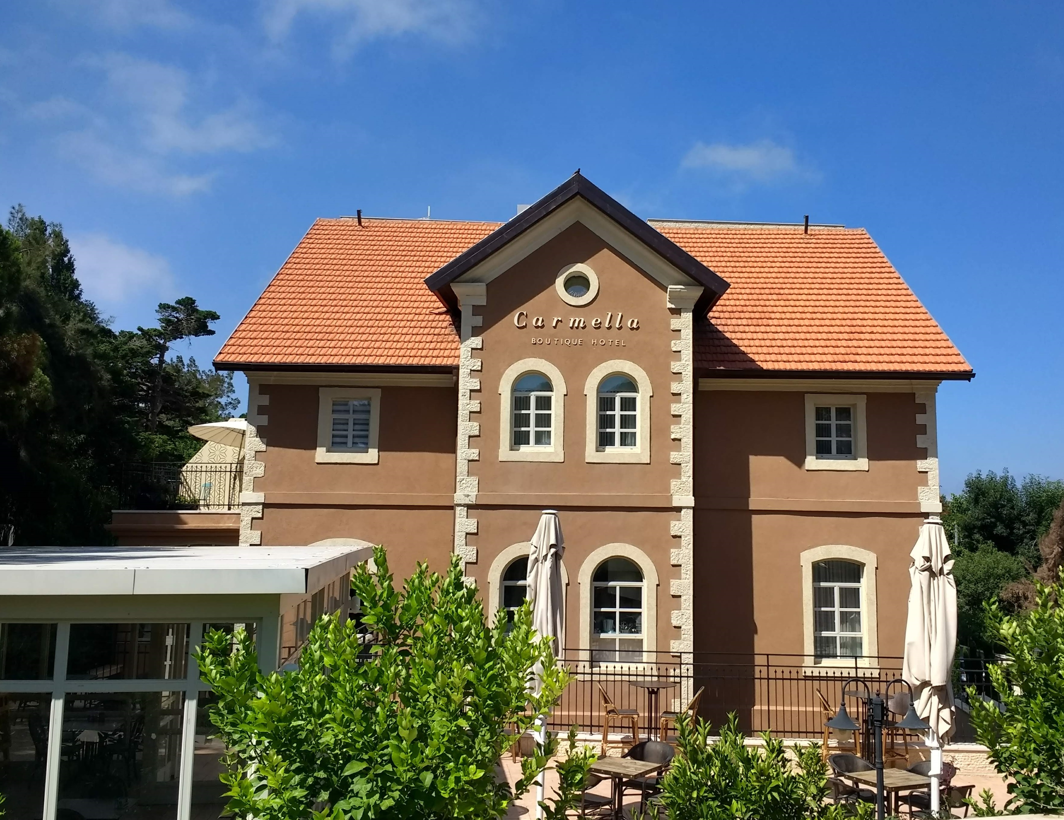 House of Pastor Martin Schneider, Head of the German Evengelical Carmel Mission